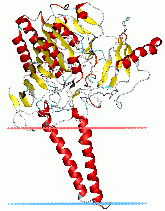 Protein image from OPM database